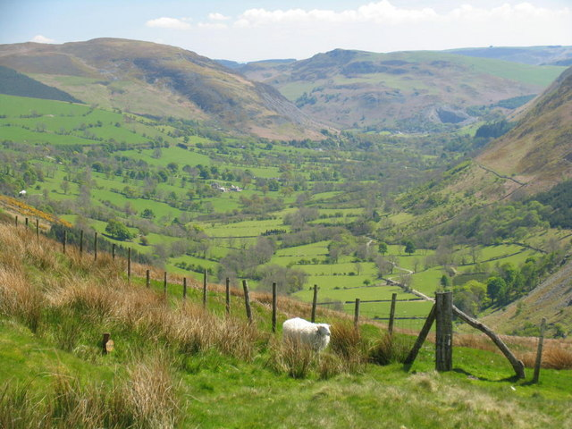 Valley of the Afon Eirth. Welsh mountain sheep with the Afon Eirth valley below looking towards Llangynog.